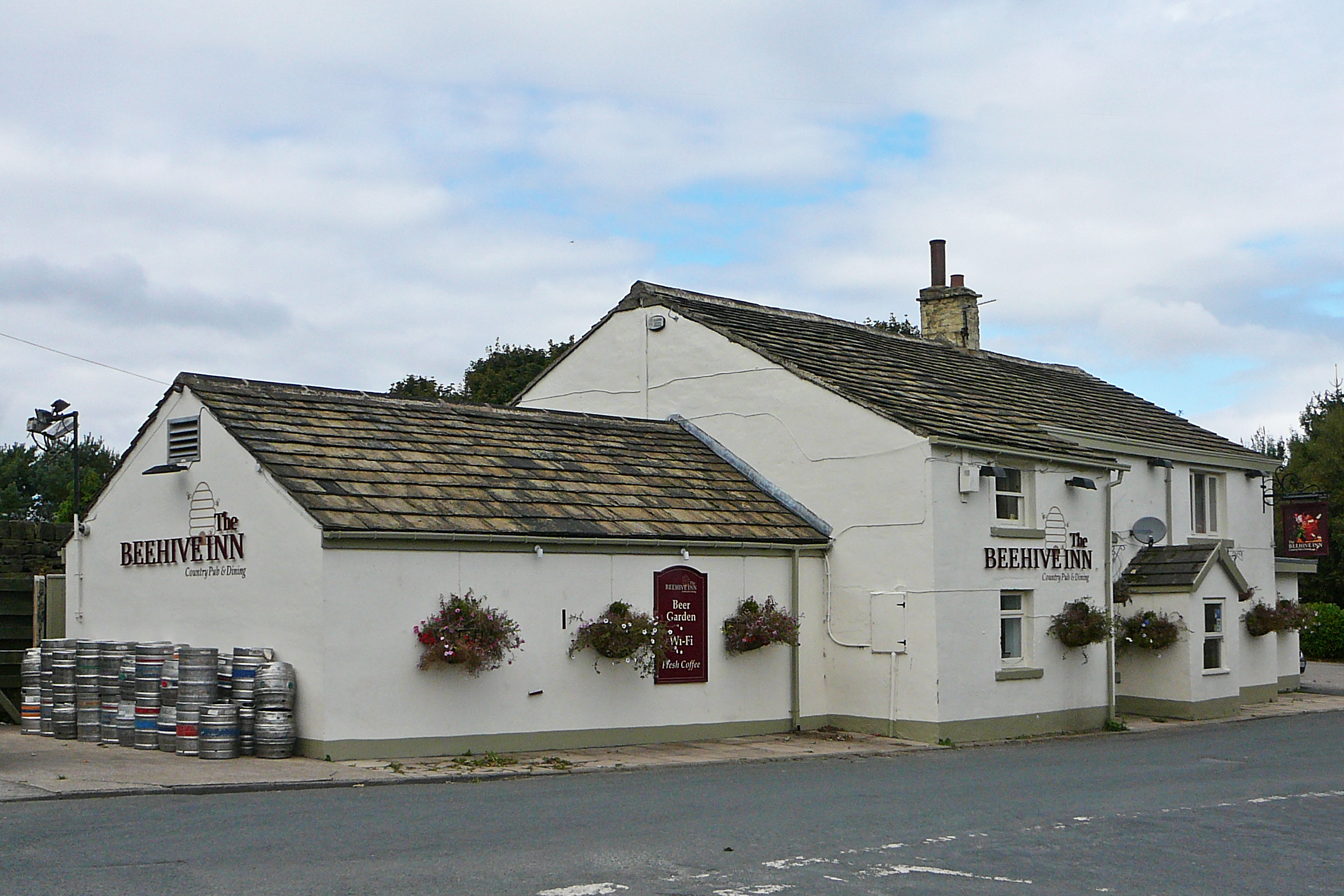 The Beehive Inn, Ripponden, West Yorkshire. Taken on Sunday the 26th of September 2010.